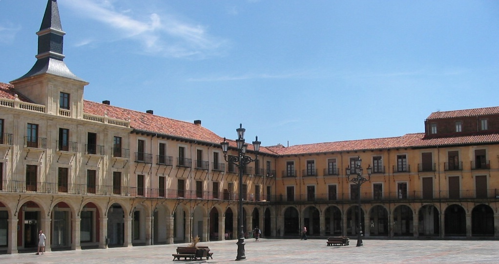 The Plaza Mayor, León , León Province, Spain taken by David Jackson